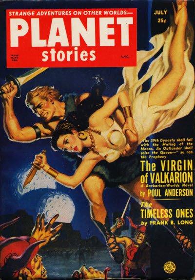 Cover of Planet Stories, July 1951